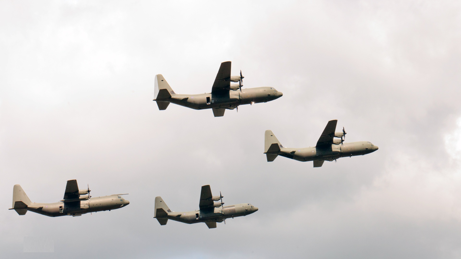 Last four Hercules fly from RAF Lyneham to RAF Brize Norton, on their way over Wootton Bassett, on July 1, 2011.